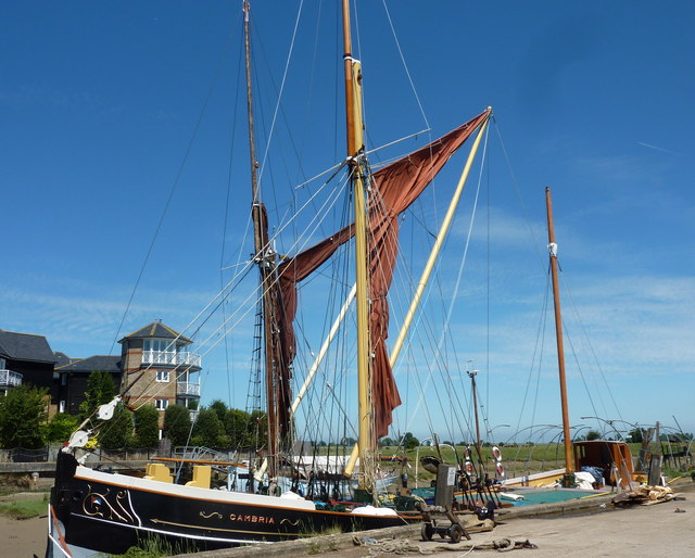 Sailing barge Cambria, Standard Quay, Faversham Creek